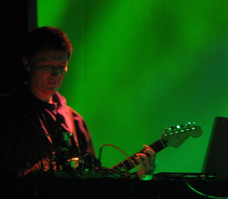 German guitarist and experimental musician Michael Rother (ex - Kraftwerk, Neu!, Harmonia). This photo was taken live at a concert of ROTHER & MOEBIUS (an electronica /ambient-krautrock collaboration project of Michael Rother & Dieter Moebius) in Frankfurt am Main/Germany (at "Sinkkasten"). More pictures from the same concert: Image:michael_rother_2007-11-14_live2.jpg, Image:michael_rother_and_dieter_moebius_2007-11-14_live.jpg, Image:dieter_moebius_2007-11-14_live.jpg